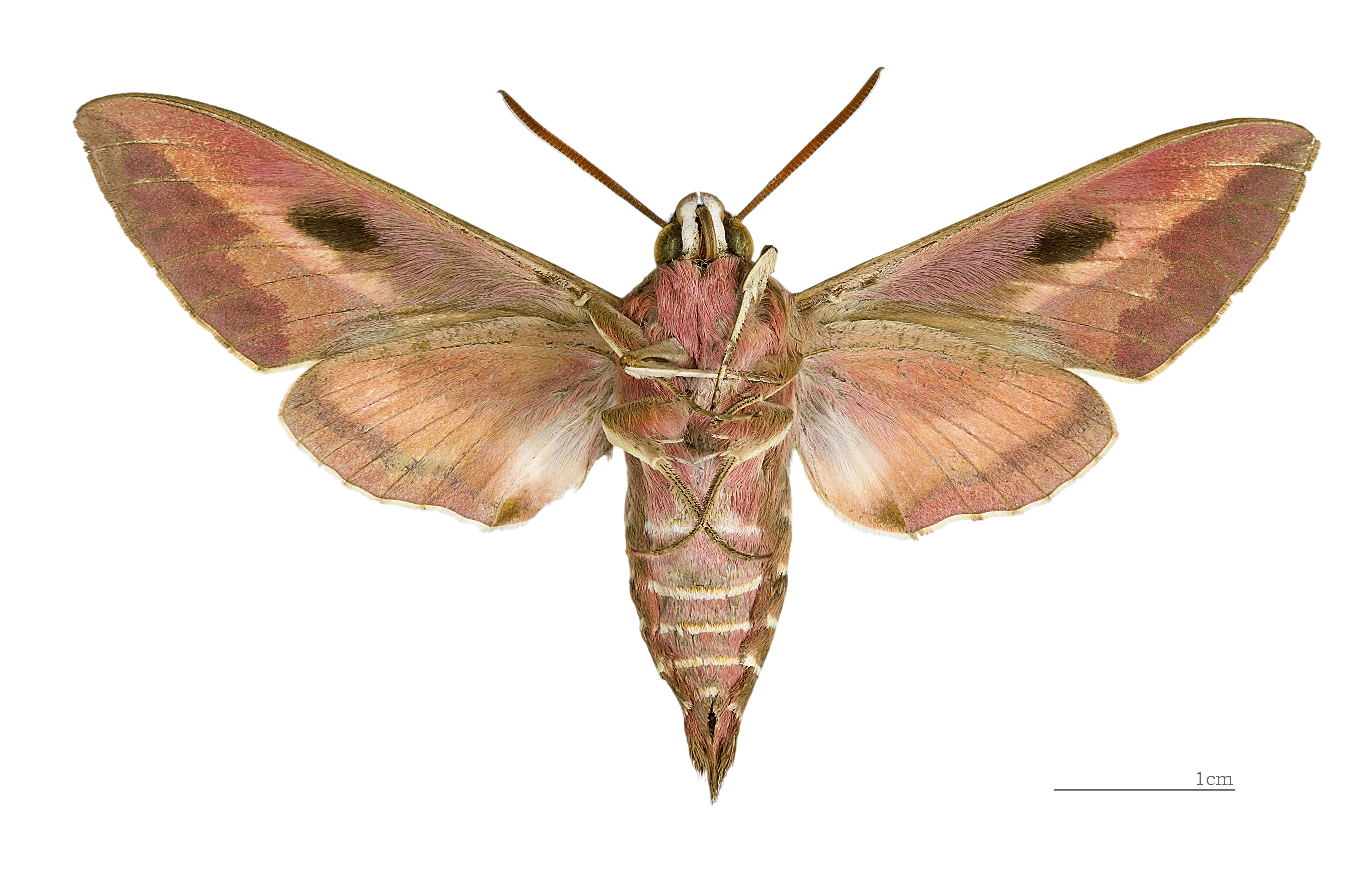 Spurge Hawk-moth - △ Ventral side